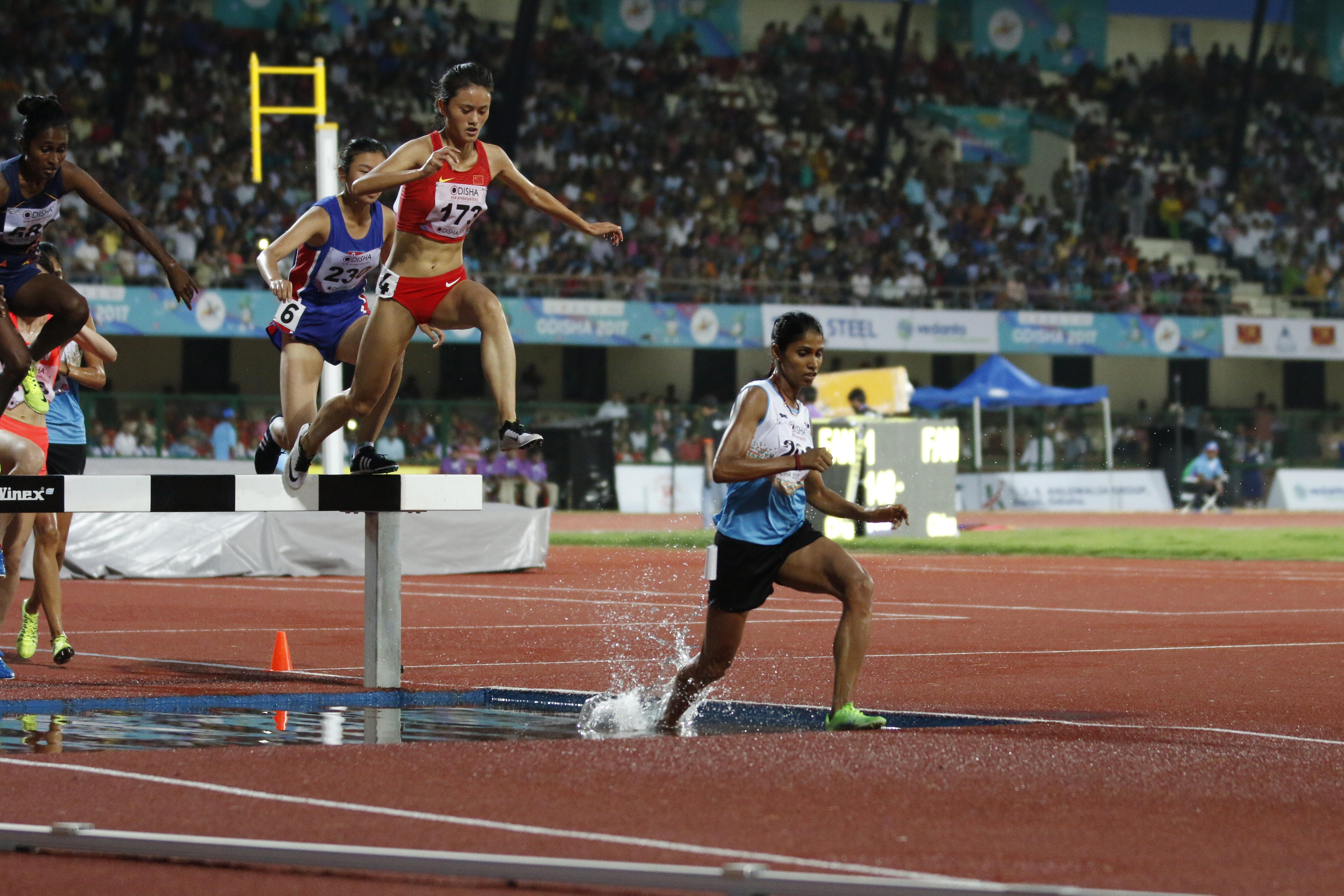 Sudha Singh from the 22nd Asian Games in Odisha. 2017 Asian Athletics Championships. 6 to 9 July 2017 at the Kalinga Stadium in Bhubaneswar